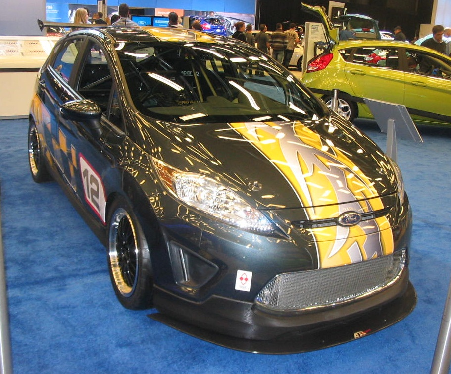 2011-present Ford Fiesta photographed in Montreal, Quebec, Canada at the 2012 Montreal International Auto Show.